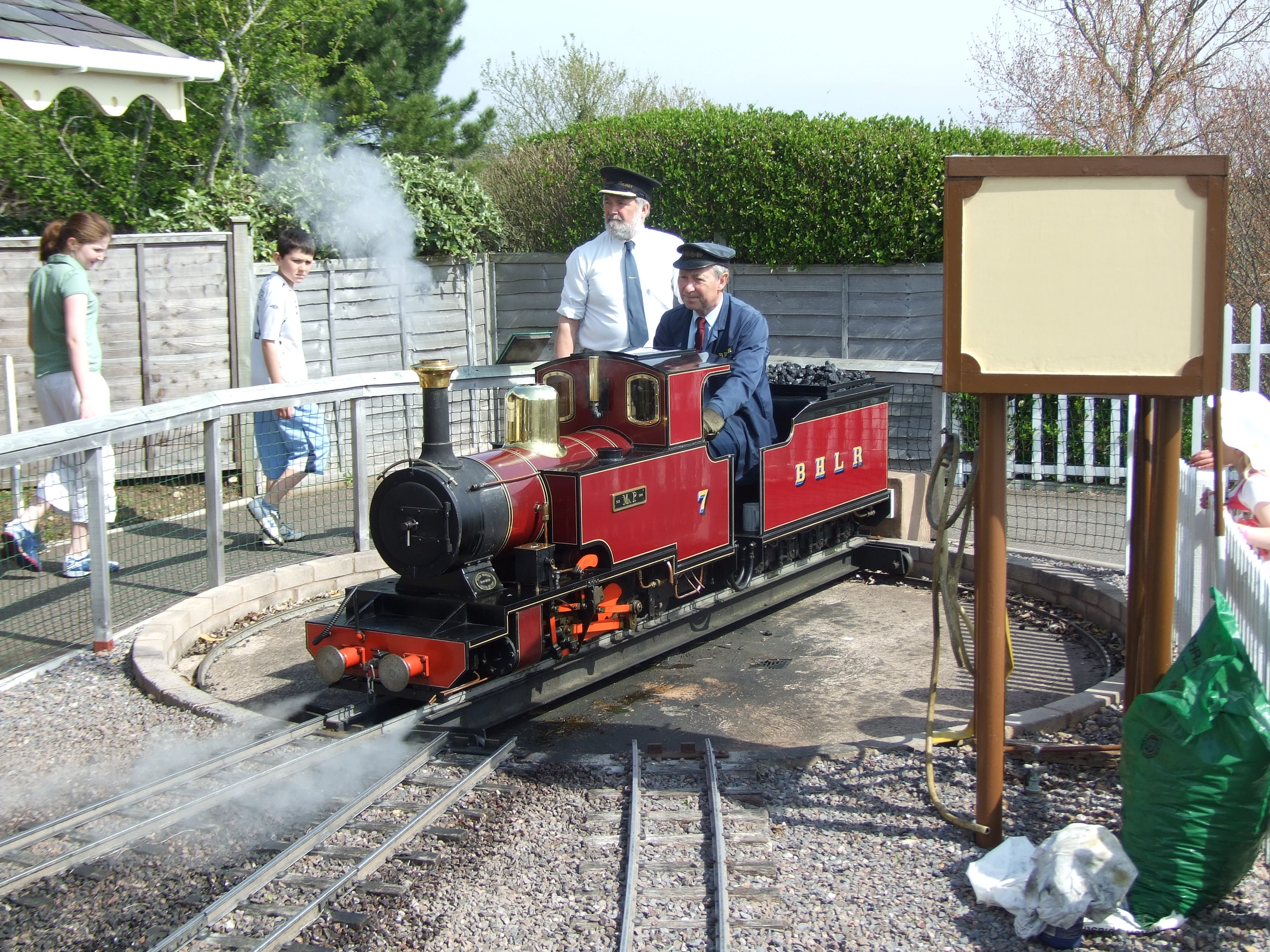 Beer Heights Light Railway: a steam locomotive on the turntable